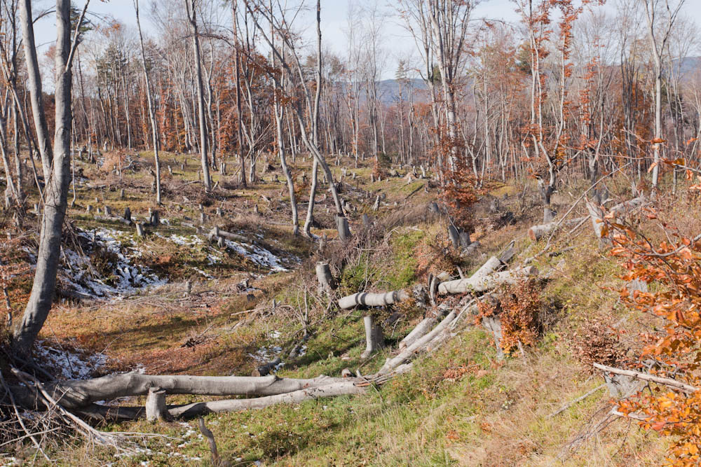 Cut down beech forest in Kupena reserve